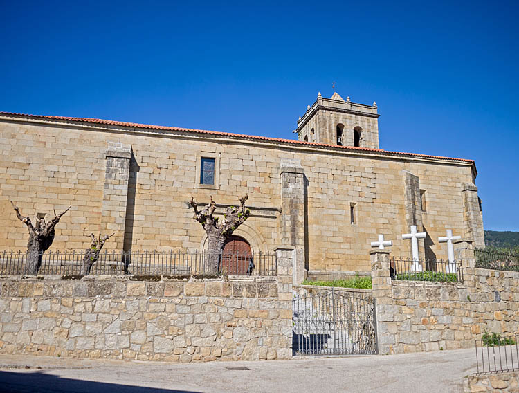 Iglesia.